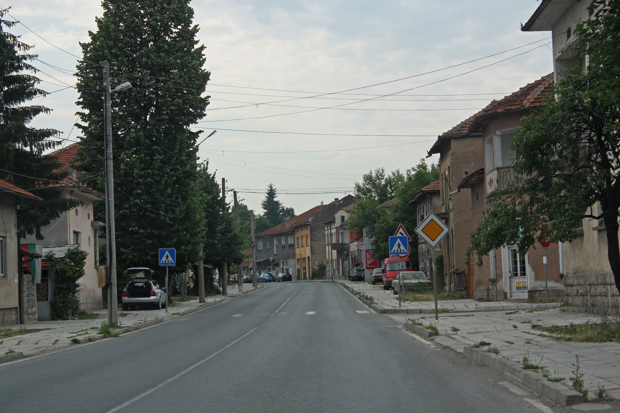 The main street of Balgarski Izvor - the Road Sofia-Varna